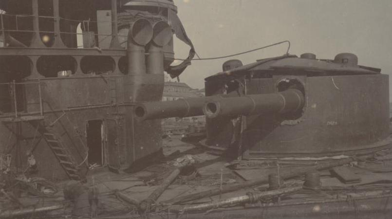 Retvizan battleship in the port of Port Arthur (Russian Empire), photographed on January 4 1905 (the day after the Japanese conquested it), as it appeared to Italian Admiral Ernesto Burzagli (1873-1944), Italian naval attaché in Tokio, who sailed from Yokohama (Japan) on a diplomatic mission to Port Arthur, during the Russo-Japanese War. The original picture, scanned by Emiliano Burzagli, belongs to the Private archive of Burzaghi family, Italy.